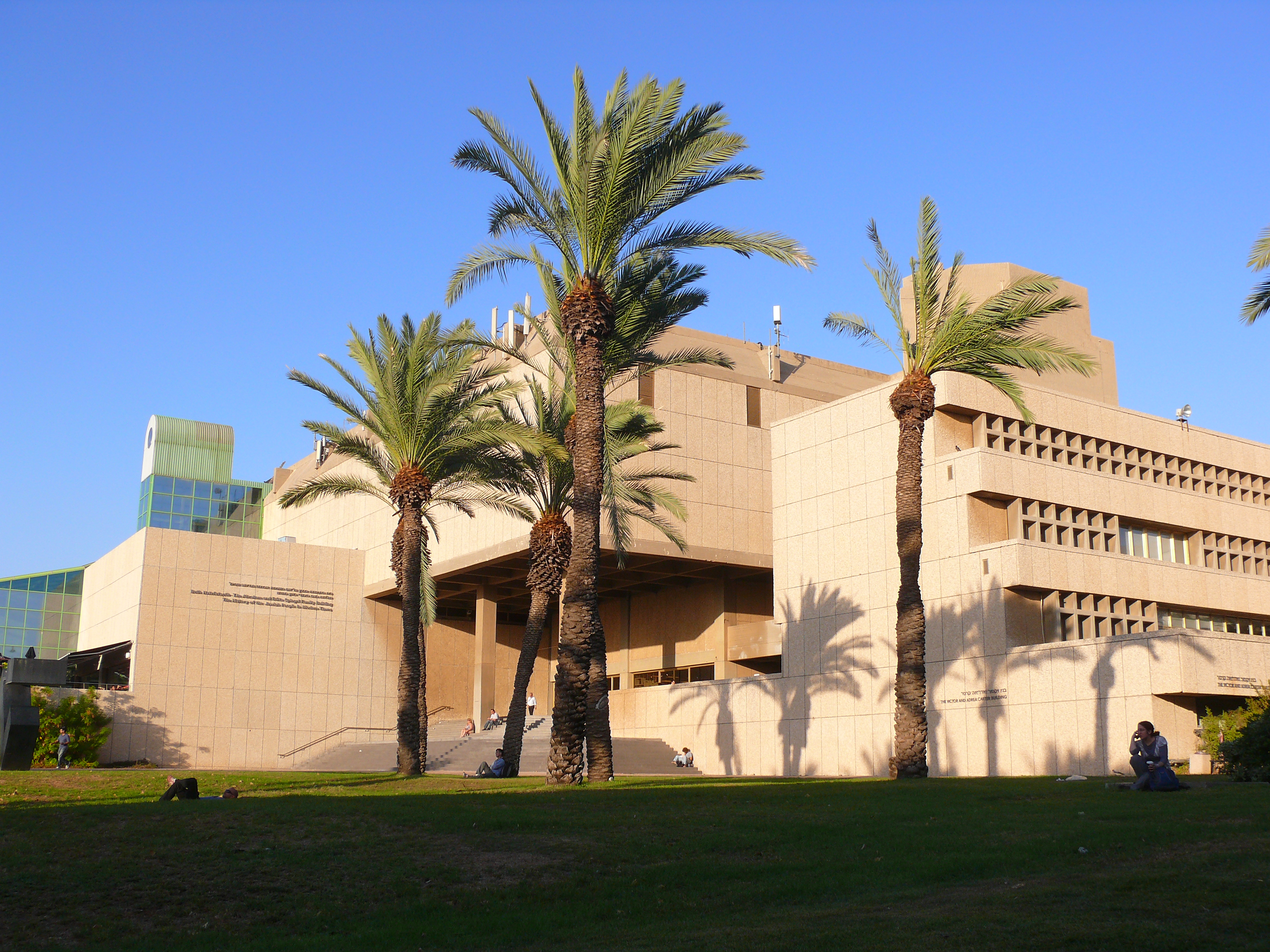 Beyt ha-Tefutsoth, Tel Aviv University campus, Israel